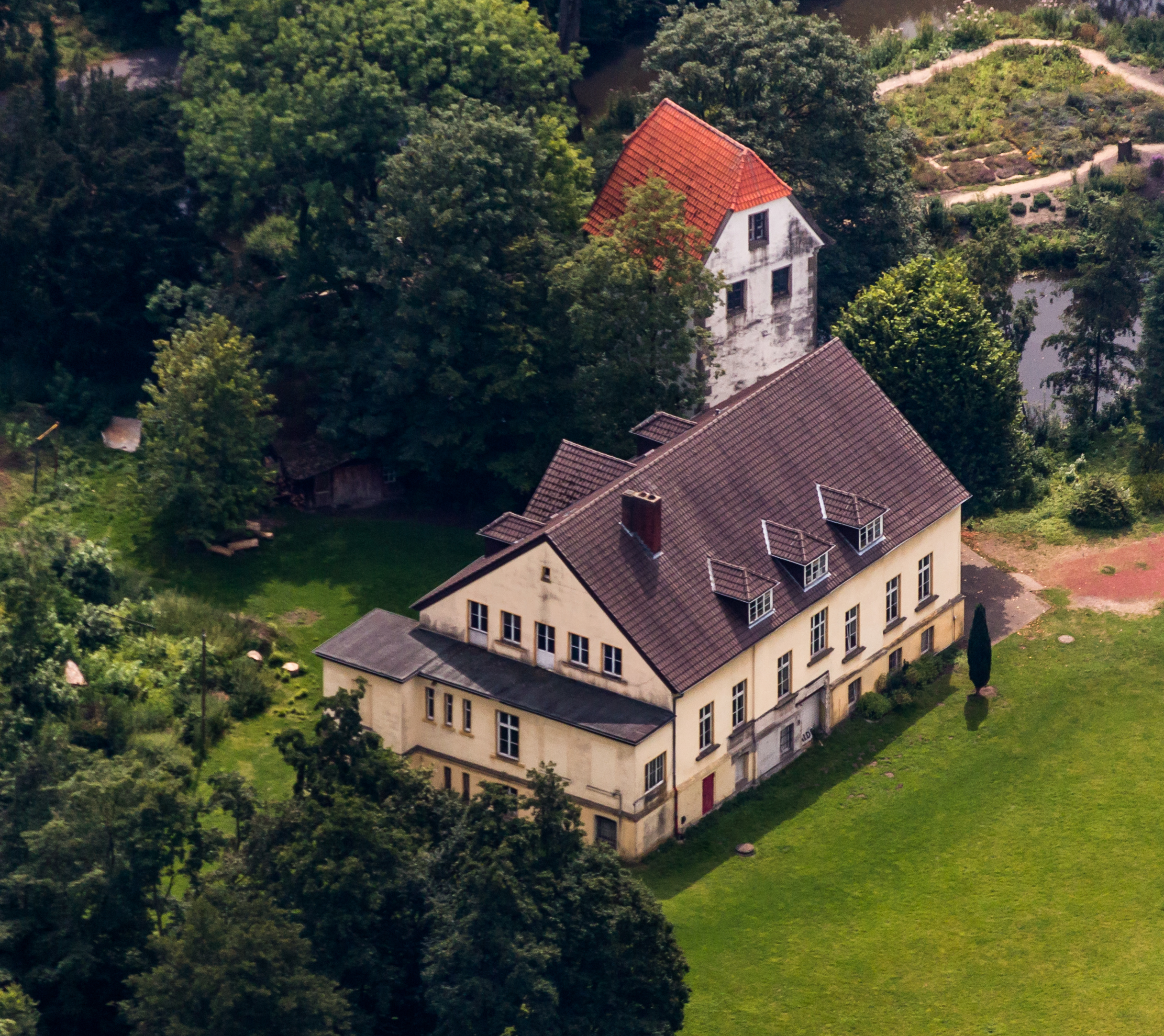 Kulturinsel Bispinghof, Nordwalde, North Rhine-Westphalia, Germany